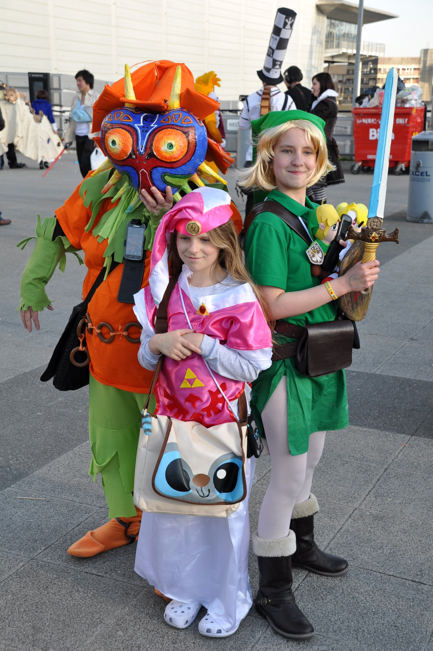 Cosplay at the Summer 2013 London MCM Expo at the ExCeL Exhibition Centre.